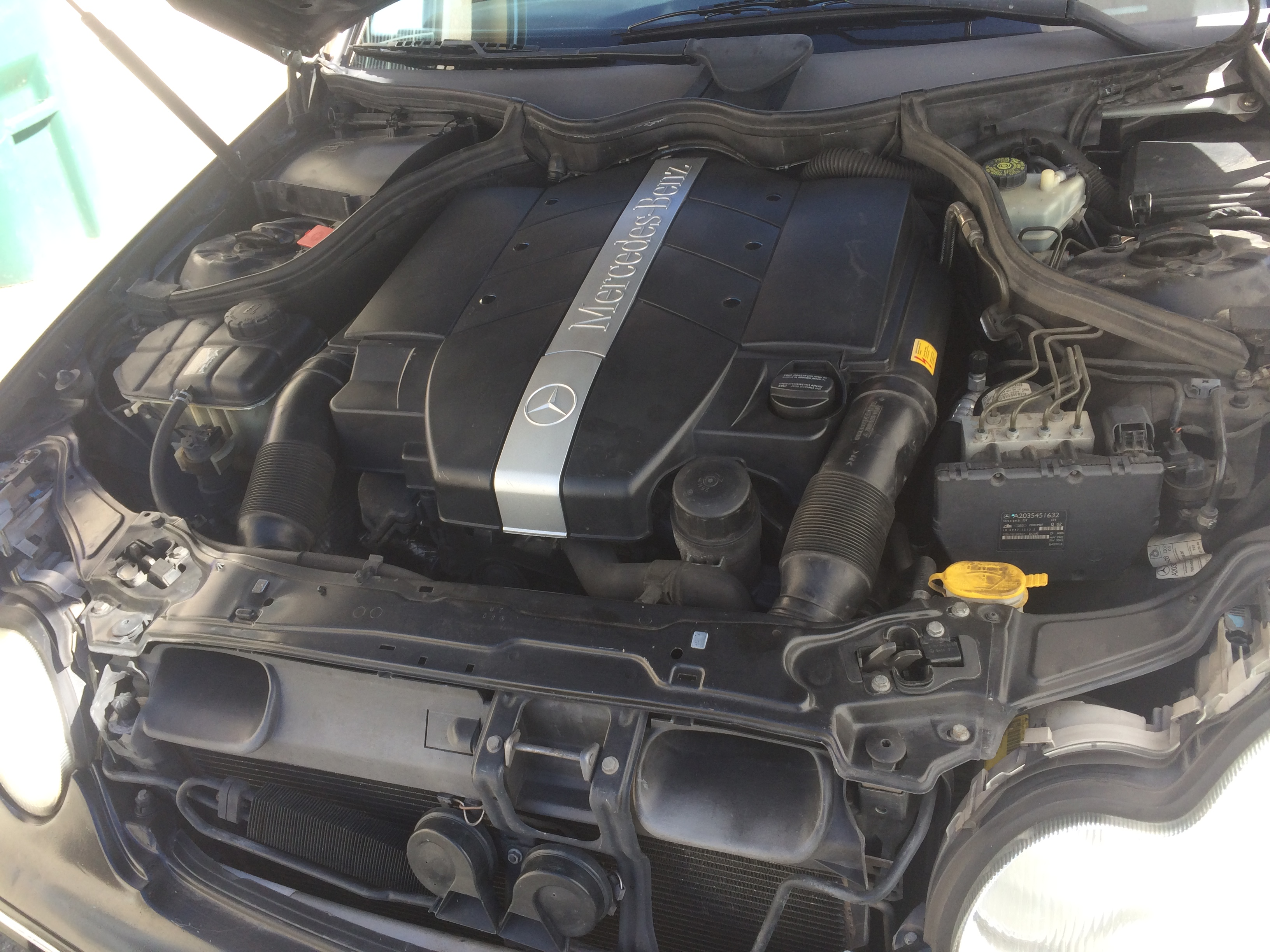 Mercedes-benz M112 motor, version E26 2.6L, year 2002 in a C240 automobile.